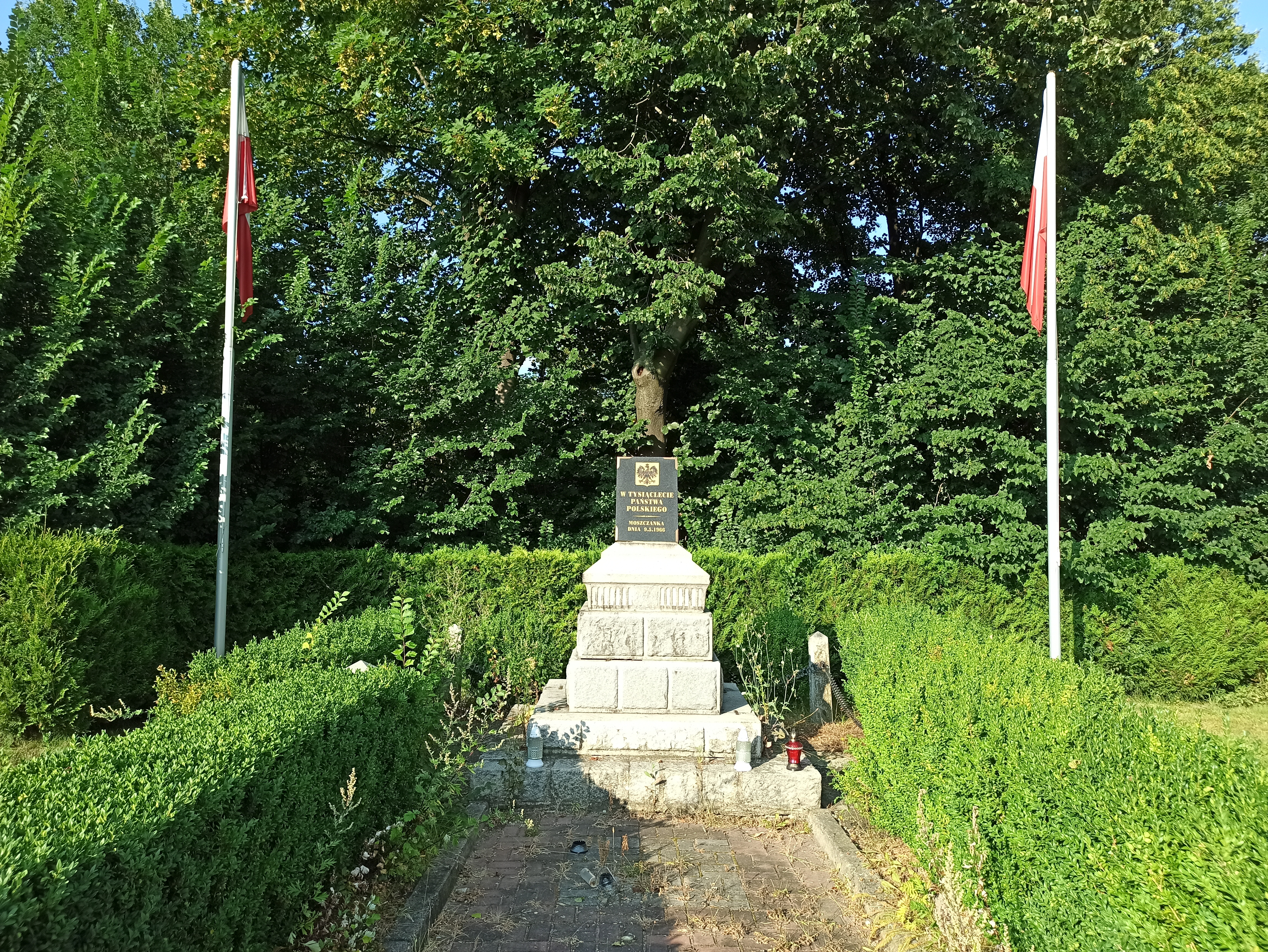 Monument in Moszczanka, Opole Voivodeship, Poland.